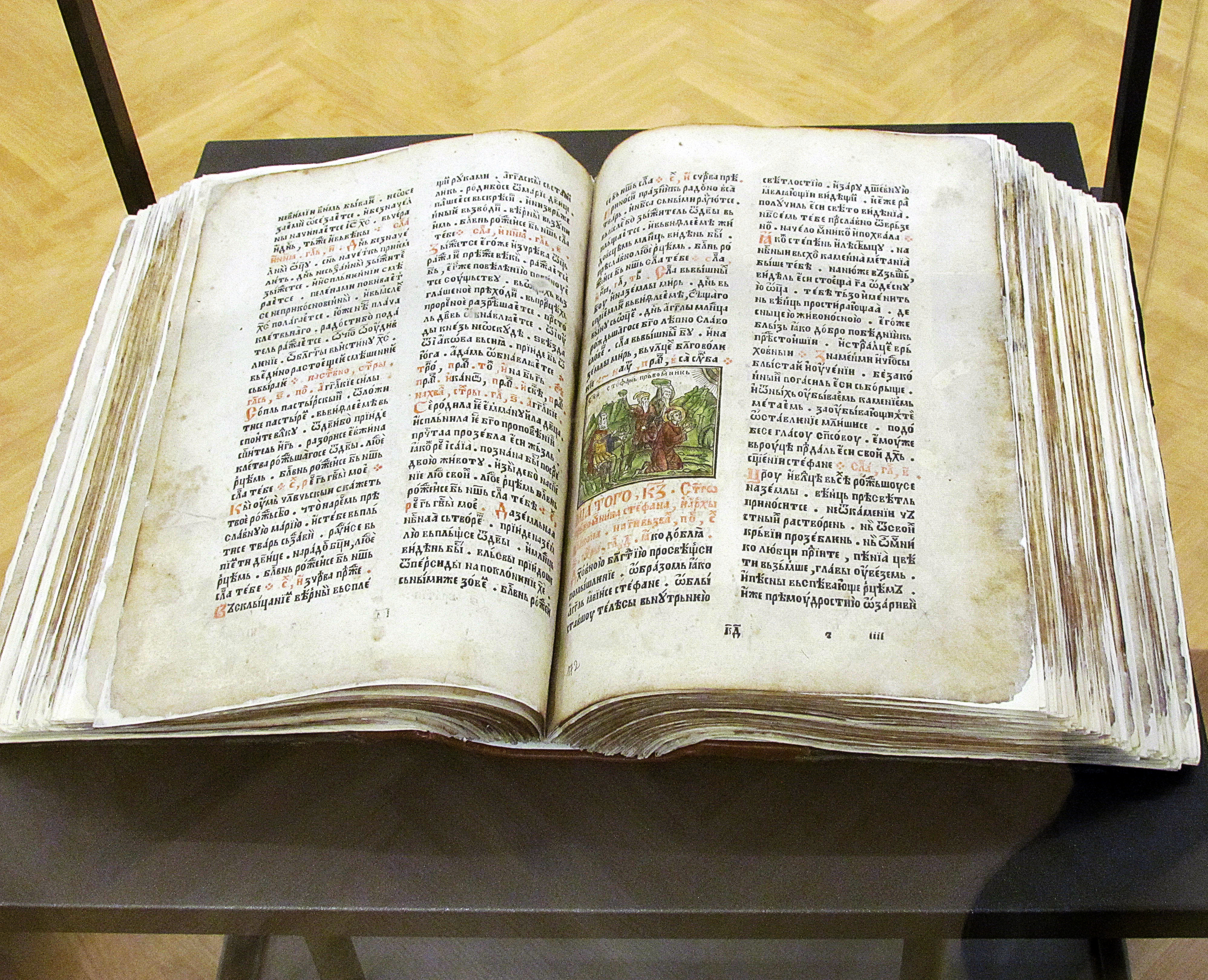 Božidar Vuković's Festal Menalon, 1538, Venice, Italy, National Museum of Serbia